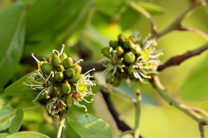 Brachystegia spiciformis Benth. - Zimbabwe